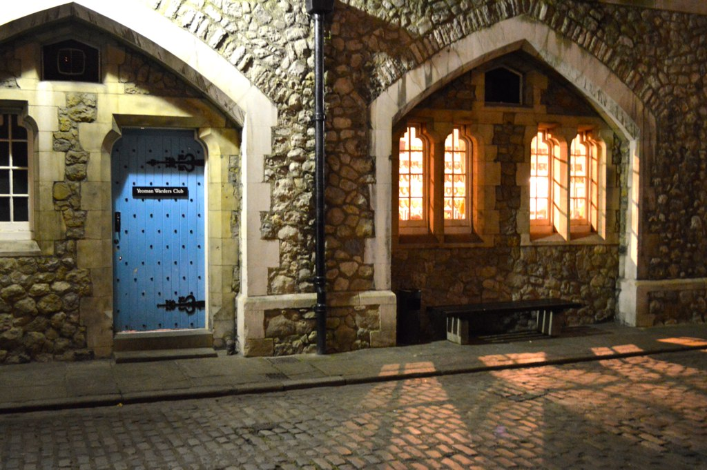 Front of the exlusive Yeoman Warders Club, also known as "The Keys"